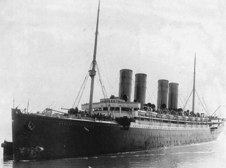 Der 1901 in Dienst gestellte Kronprinz Wilhelm des NDL beim Bunkern von Kohle.